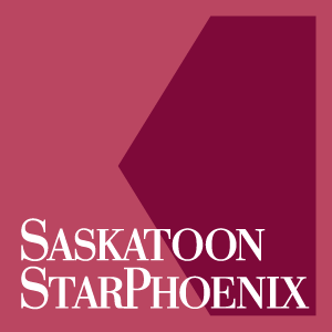 Logo from Postmedia owned newspaper, The Saskatoon StarPhoenix.